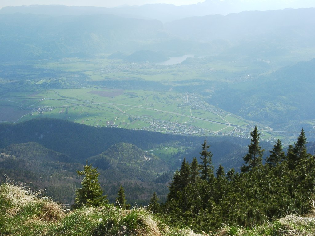 West side of Žirovnica municipality. The town in the distance is Bled.